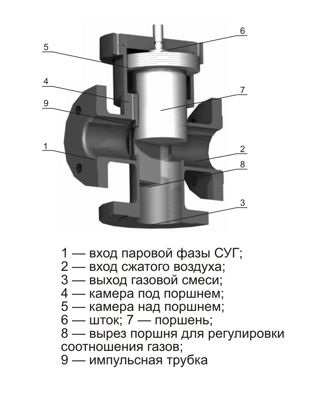 Устройство POM - блендера